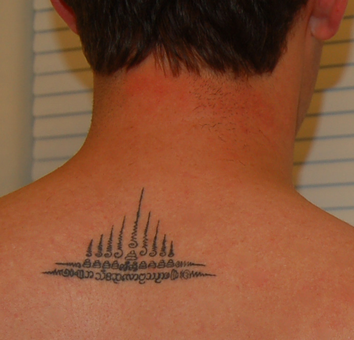 Typical "sak yant gow yord" tattoo for use on Wikipedia's Yantra tattooing article